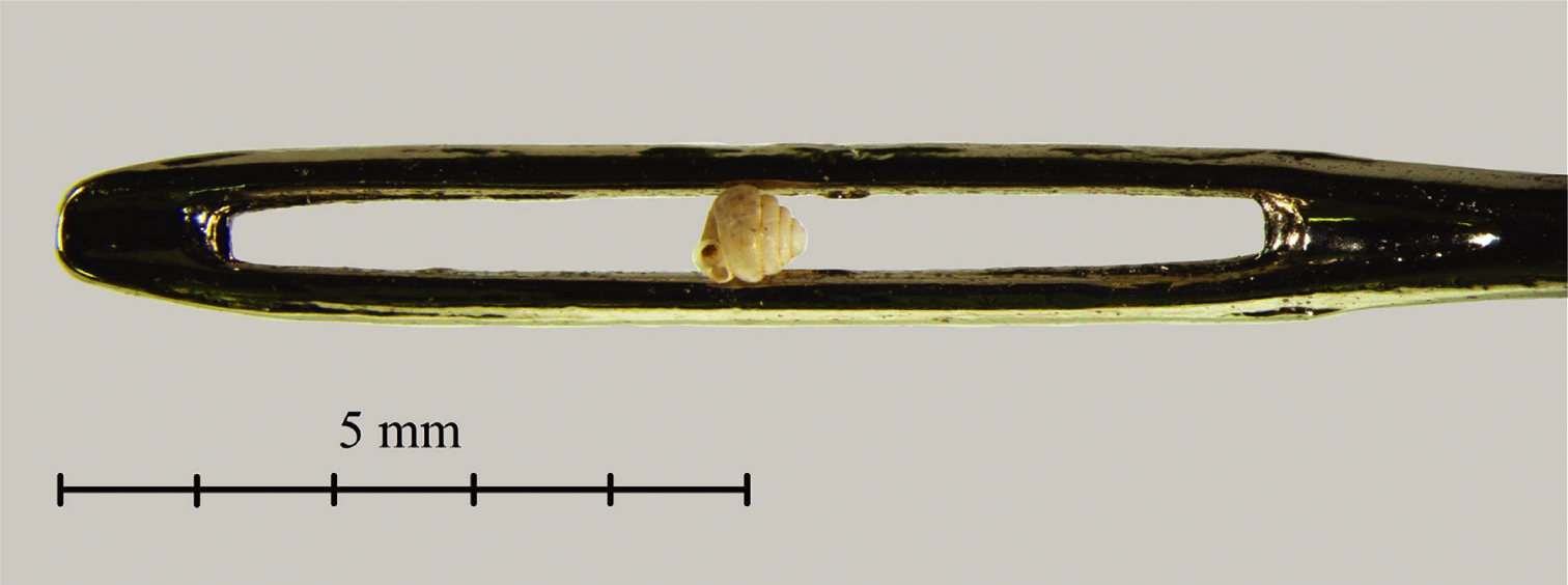 Angustopila dominikae Páll-Gergely & Hunyadi, 2015, Hypselostomatidae, Pulmonata, Gastropoda, for comparison, shell in an needle's eye